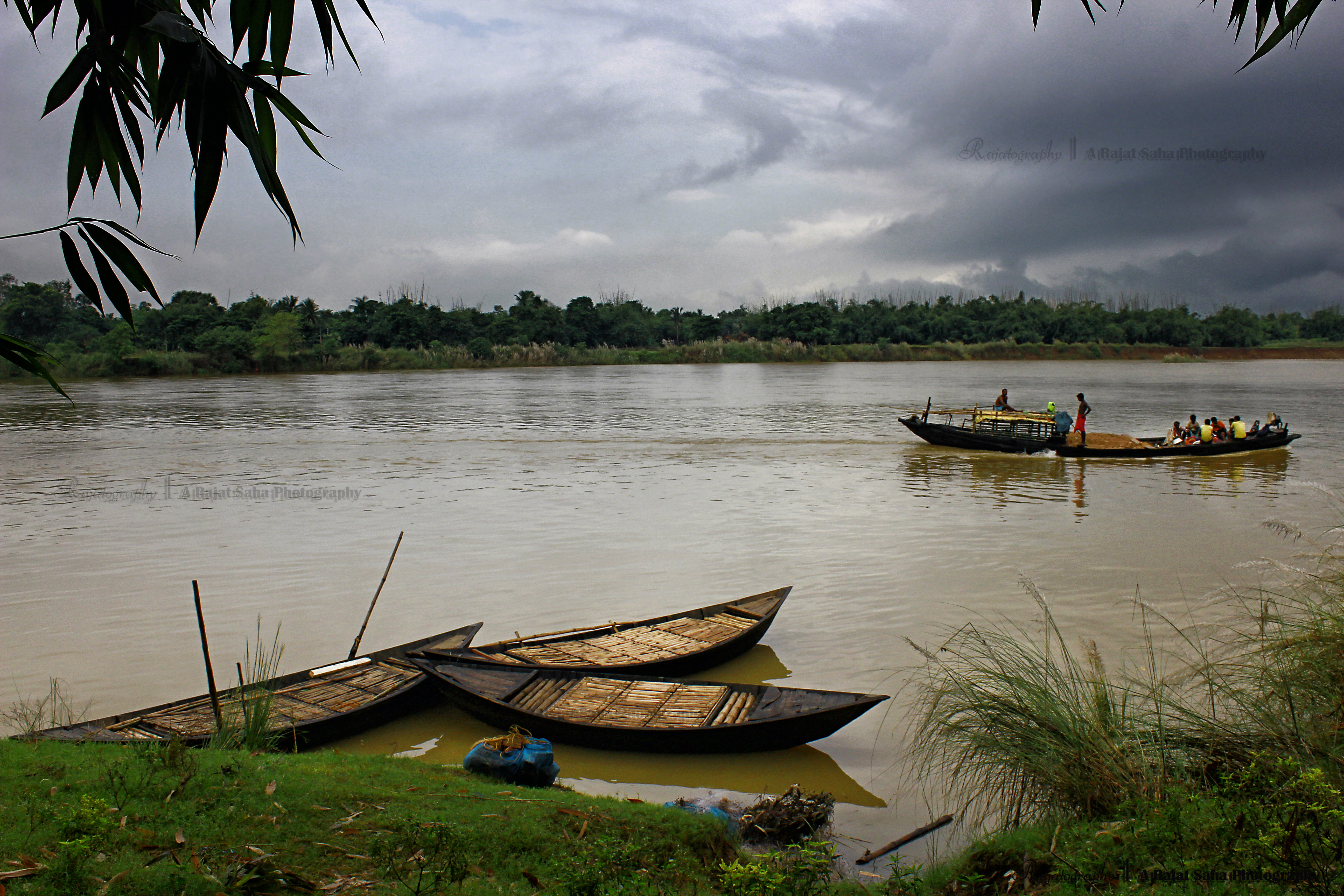 In the time of winter . Photo taken from Katwa . where Ajay join The great river Ganges.